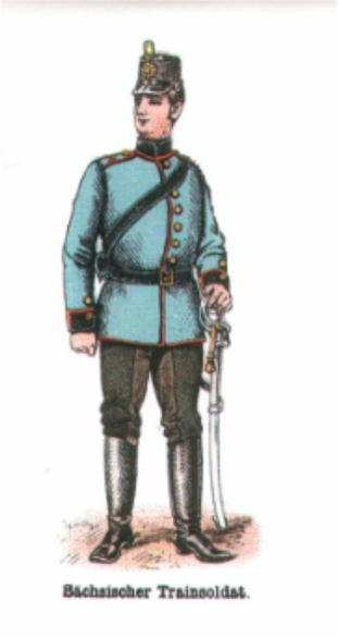 Royal Saxonian Transportation Corps